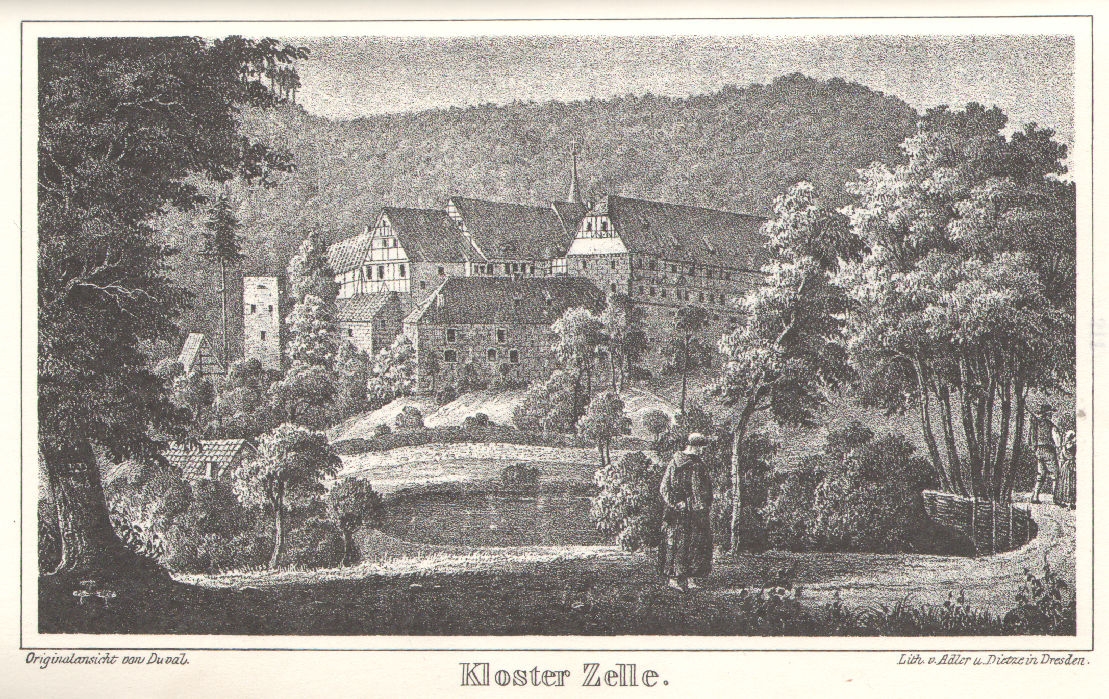 The benecitine monasterie Zella near Lengenfeld unterm Stein in Eichsfeld.